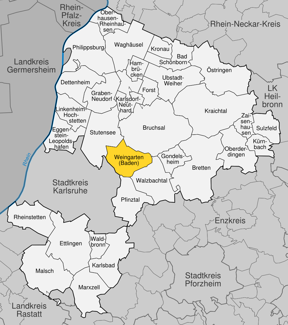 position of Weingarten within distict of Karlsruhe, Baden-Württemberg, Germany